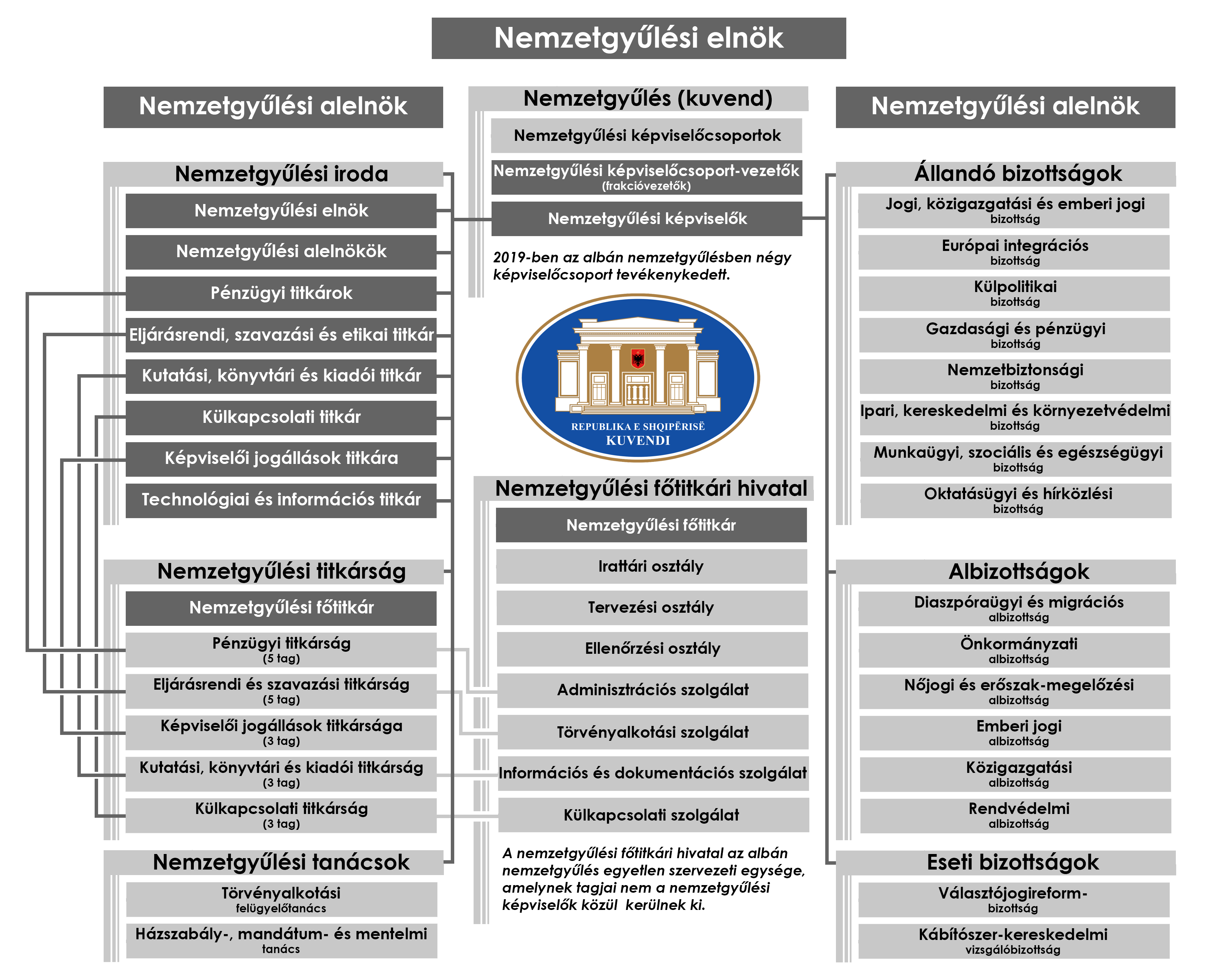 The structural units of the Albanian kuvend in 2019.